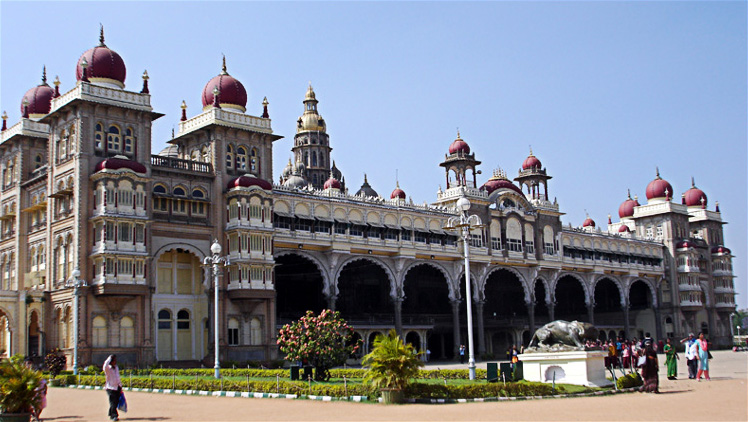 The famous Mysore Palace was built by the Mysore Maharaja. This palace has an amazing architecture. A masterpiece in Indo-Saracenic architecture, on par with great Mughal residences of the North and the stately colonial public buildings of the South. A dramatic three storied stone building of fine gray granite with deep pink marble domes dominated by a five-storied 145 ft tower with a gilded dome mounted by a single golden flag.Mysore is supposed to be one of the best cities to live in.Bangalore has gotten crazy these days.It has lost the essence of kannada.